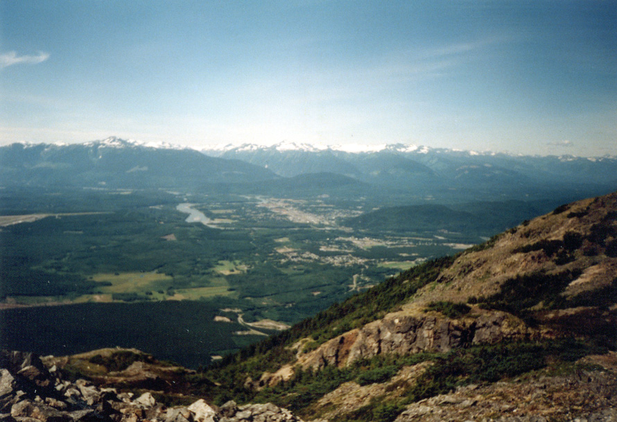 City of Terrace, BC from Mt. Thornhill.